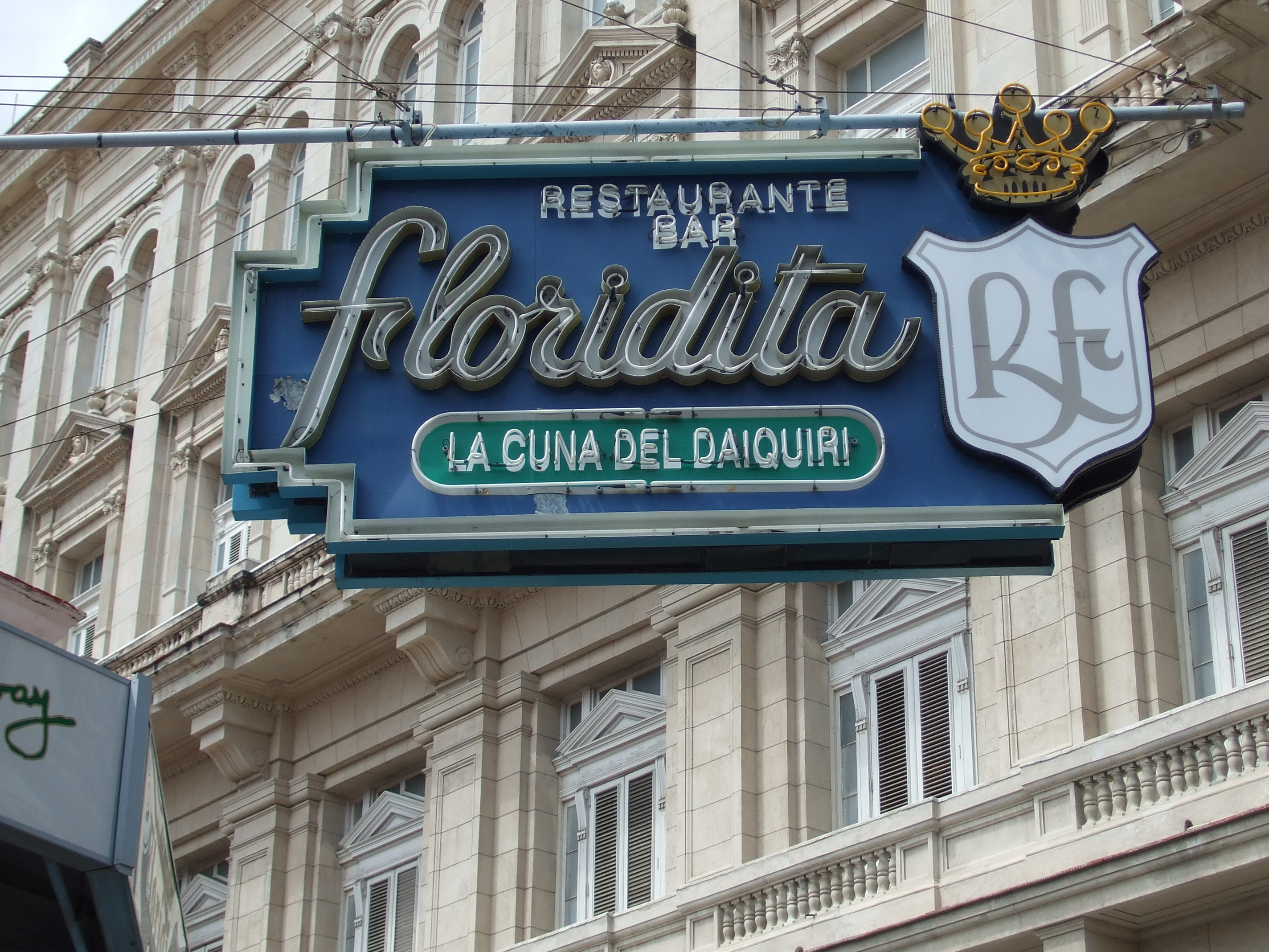 Floridita Bar-Restaurant "Home of the Daiquiri"